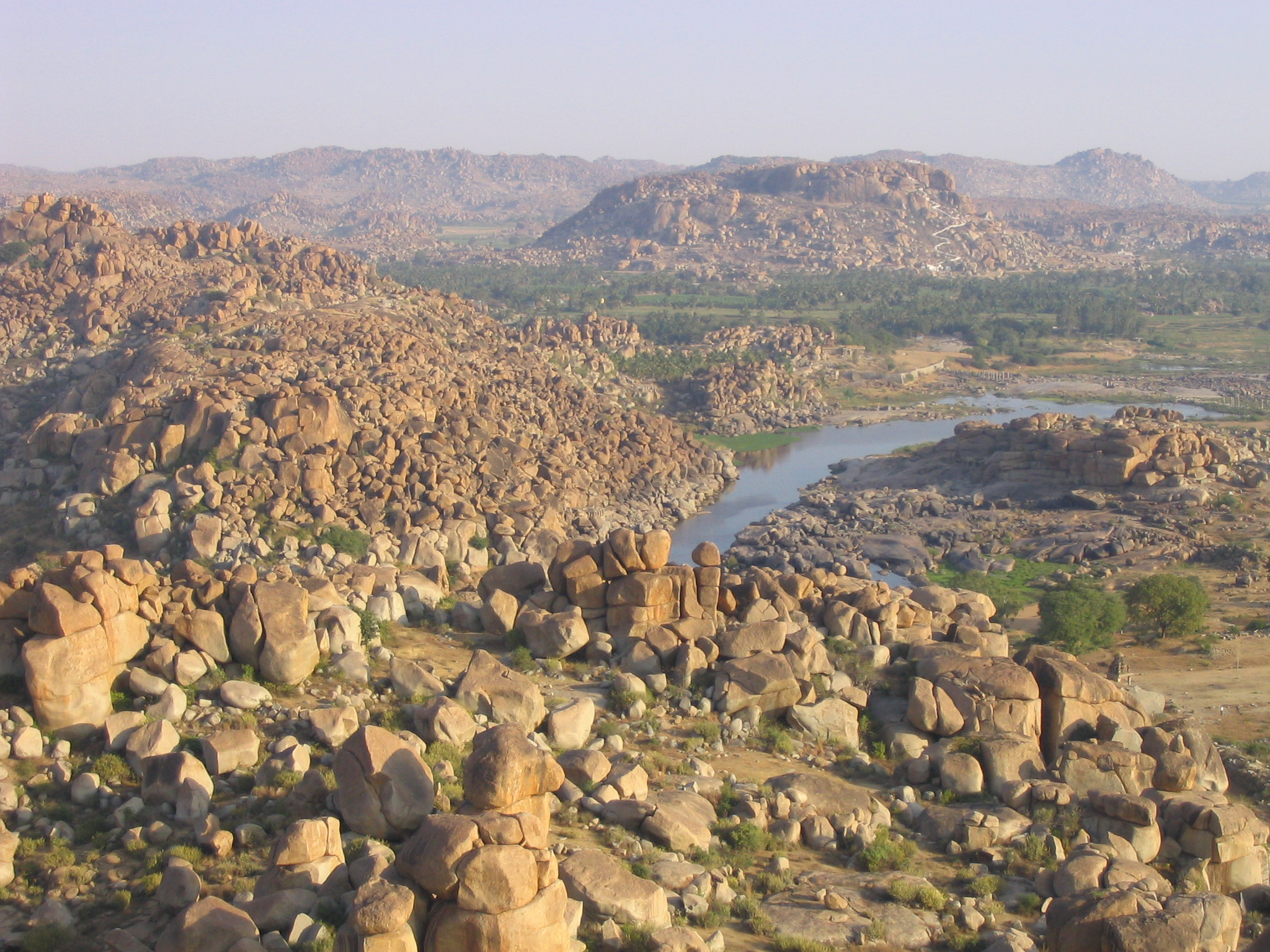 Tungabhadra-River, Hampi, Vijananagar (Karnataka, India)